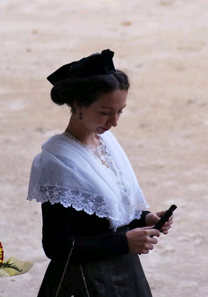 Patrimoine culturel de Saint Rémy de Provence